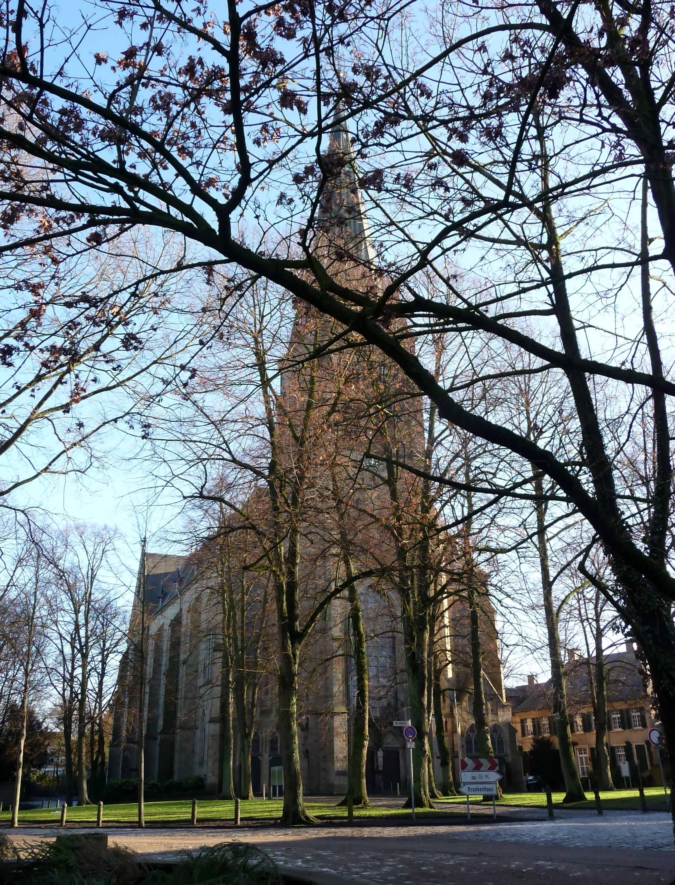 The Church of Borghorst (Steinfurt)